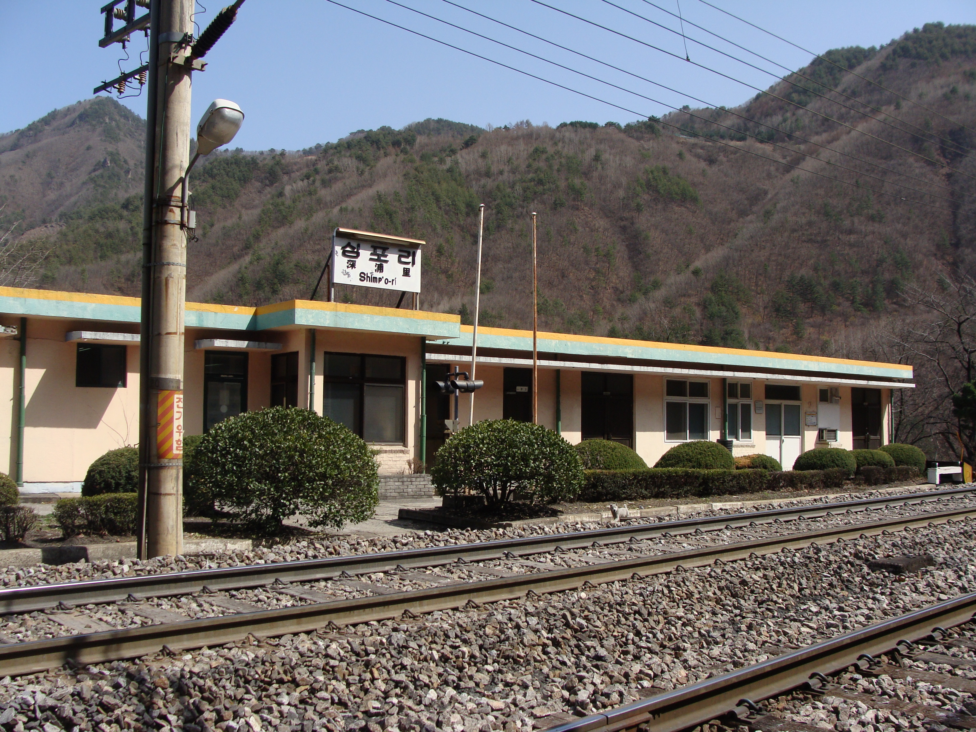 Simpori Station of Yeongdong Railway Line, South Korea